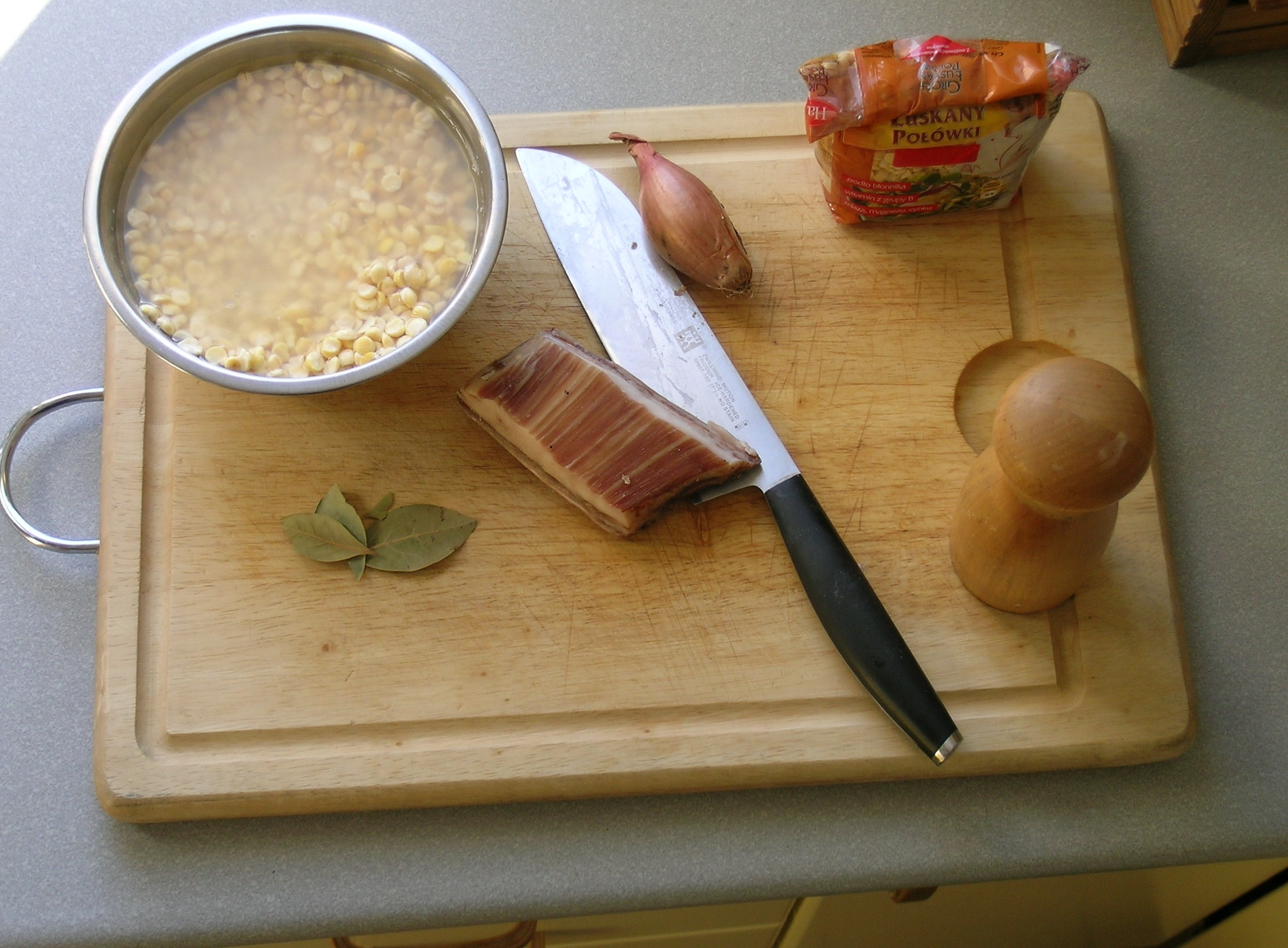 Pease pudding Polish style - ingredients